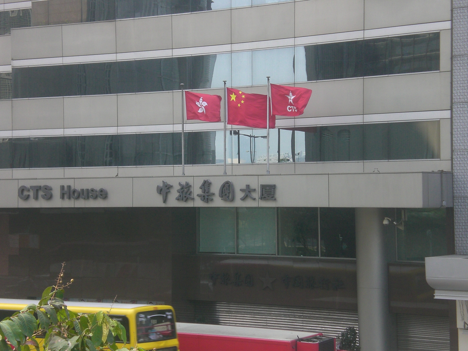 中環中旅集團大廈